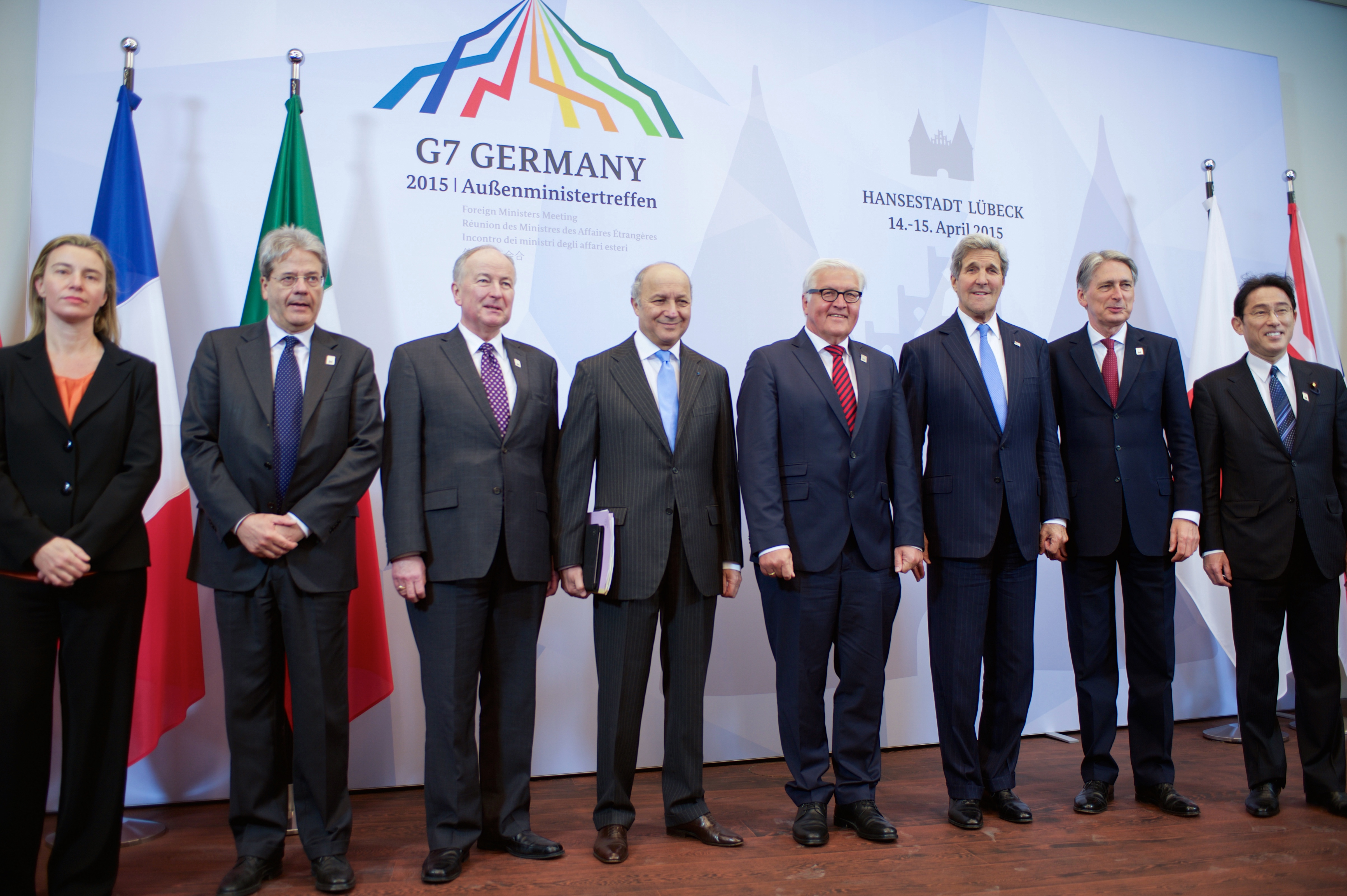 European Union High Representative for Foreign Affairs Federica Mogherini, Italian Foreign Minister Paolo Gentiloni, Canadian Foreign Minister Rob Nicholson, French Foreign Minister Laurent Fabius, German Foreign Minister Frank-Walter Steinmeier, U.S. Secretary John Kerry, British Foreign Secretary Philip Hammond, and Japanese Foreign Minister Fumio Kishida before a G7 Ministerial Meeting in Lubeck, Germany, on April 15, 2015.